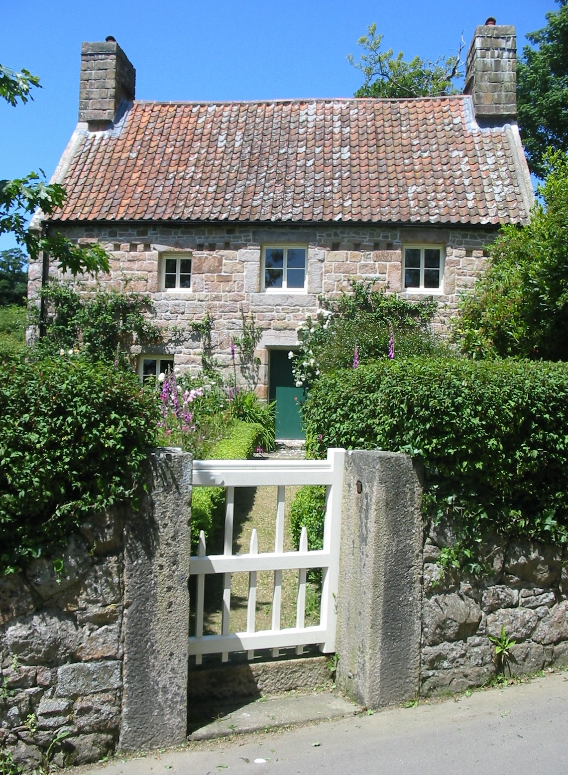 Le Rât, a cottage belonging to the National Trust for Jersey in Jersey Photo taken by Man vyi with Canon PowerShot A40 on 11/6/2005